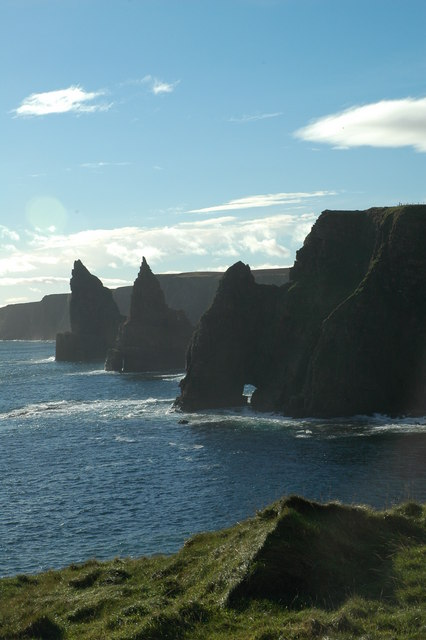 Stacks of Duncansby They are well worth a look at with your own eyes. Something spectacular.